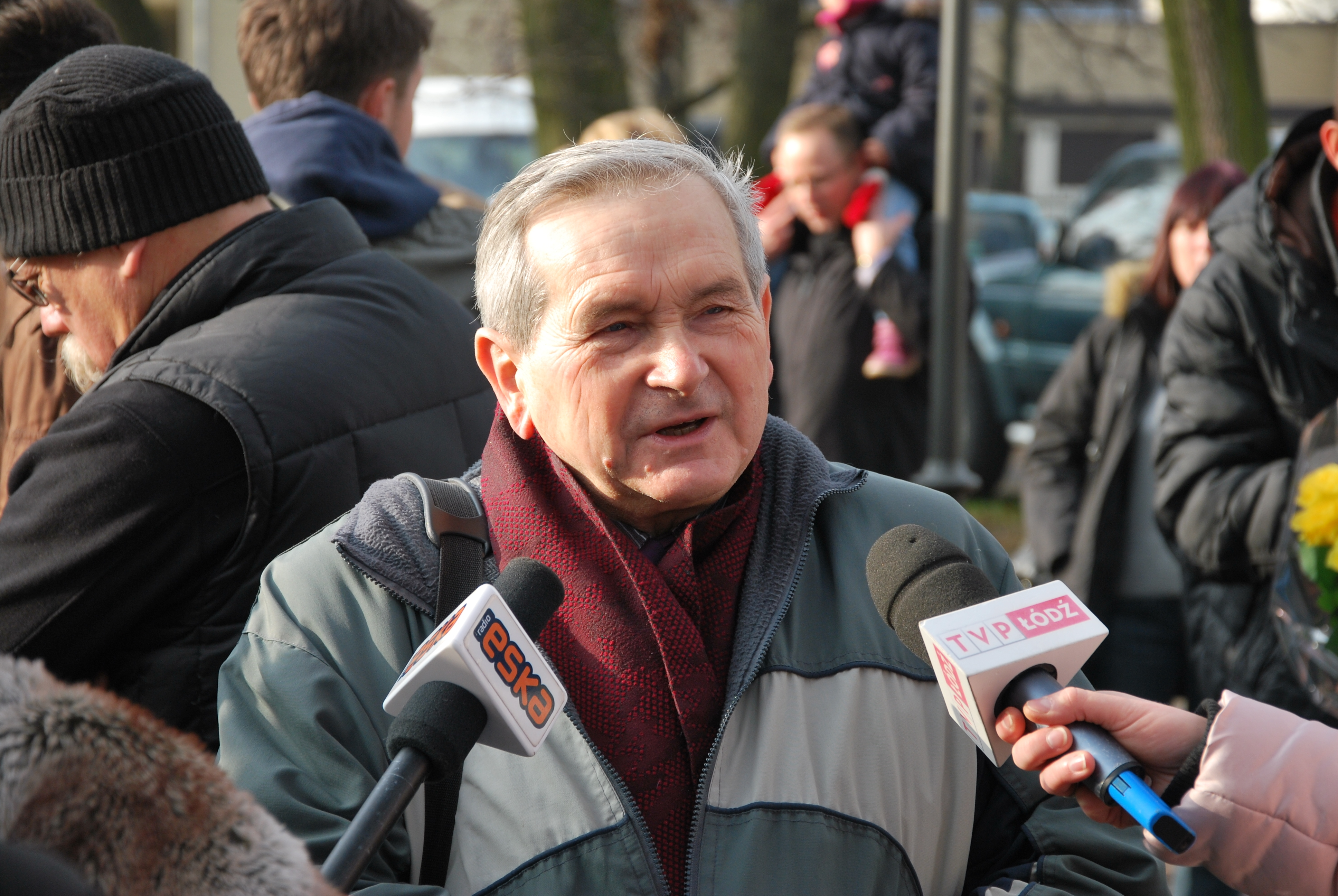 Opening of Three Bears Sculpture, Łódź November 25th 2012